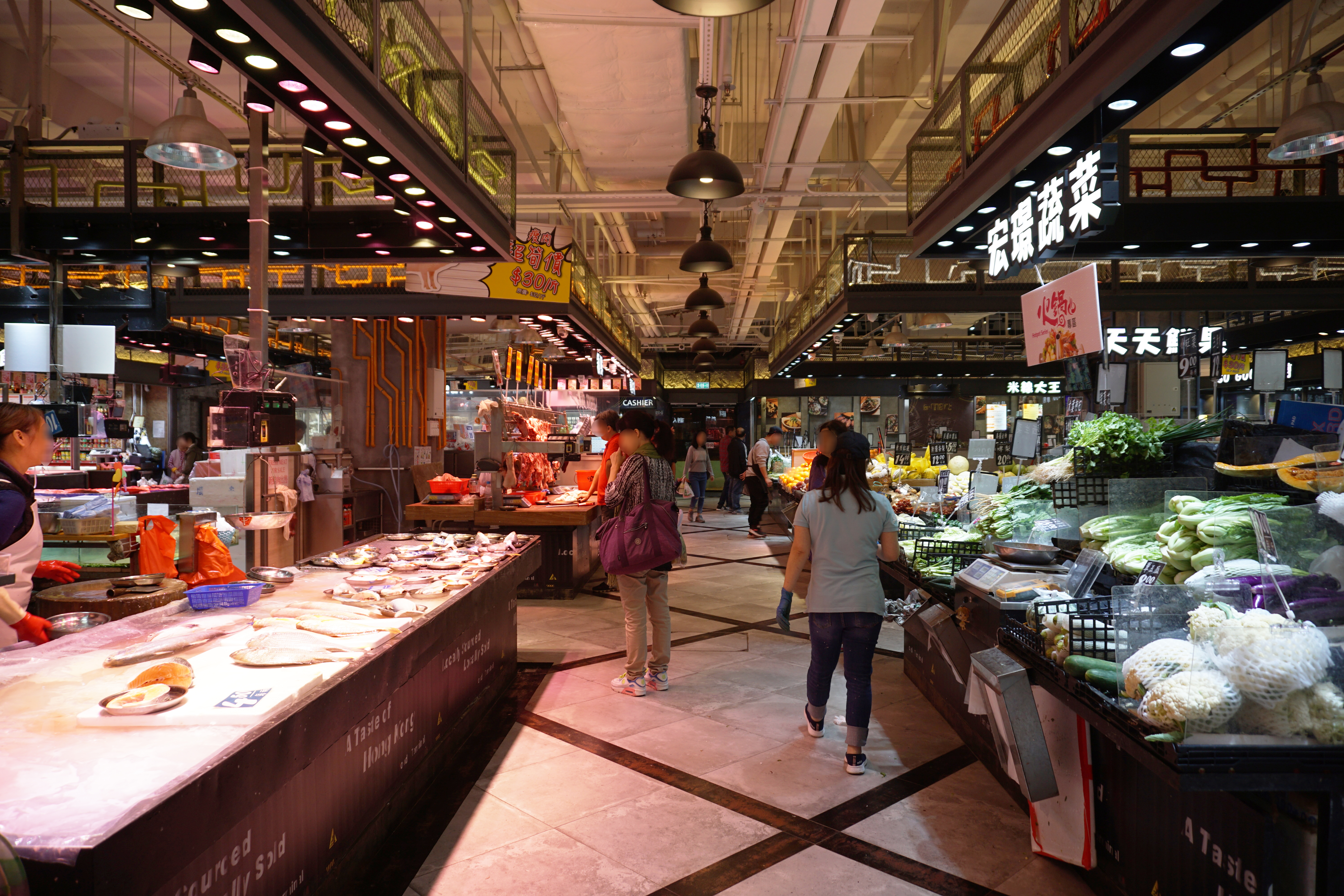 Food Terminal in Kowloon Bay, Hong Kong.